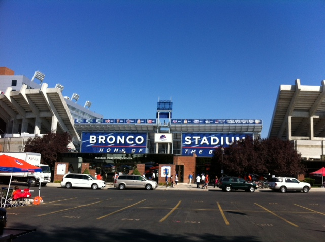 The newly expanded south endzone of Bronco Stadium in Boise, Idaho as seen on September 15, 2012